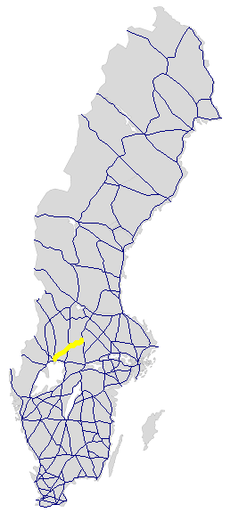 Riksväg 63, Sweden